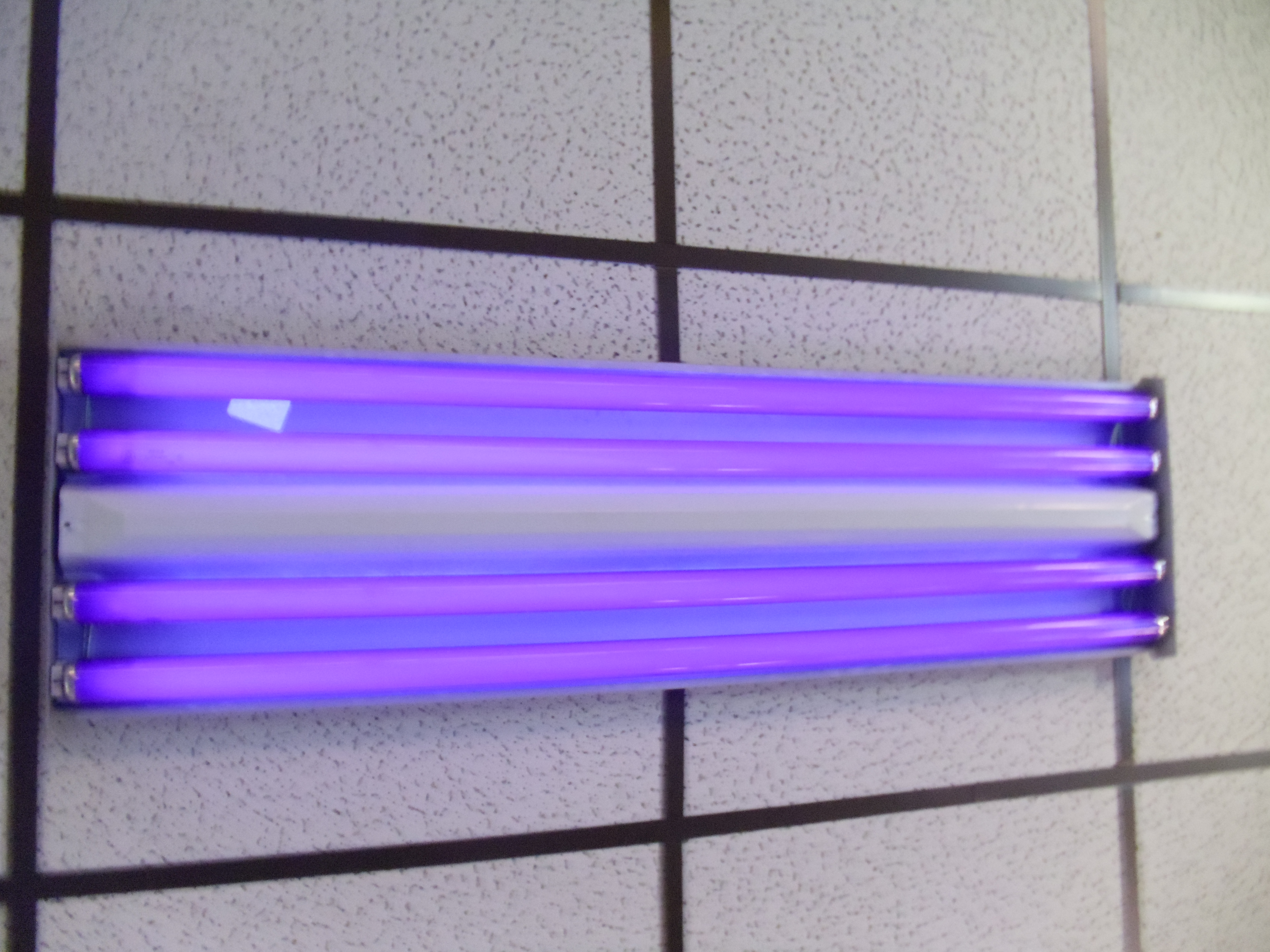 Four F40T12/BLB 48 inch 40 watt black light fluorescent tubes in a standard fluorescent ceiling fixture. These emit long-wave (UVA) ultraviolet light at around 365 nm. Large black light fixtures like these are often used in produce storage rooms to attract fruit flies to bug zappers. The purple glow that black light tubes emit is not the ultraviolet light itself, which is invisible, but the purple 404 nm mercury vapor spectral line which passes through the dark blue filter material on the tube. The color is not rendered completely correctly in this photo; the tube looks darker to the naked eye because of differences in response between the eye and the camera sensor.